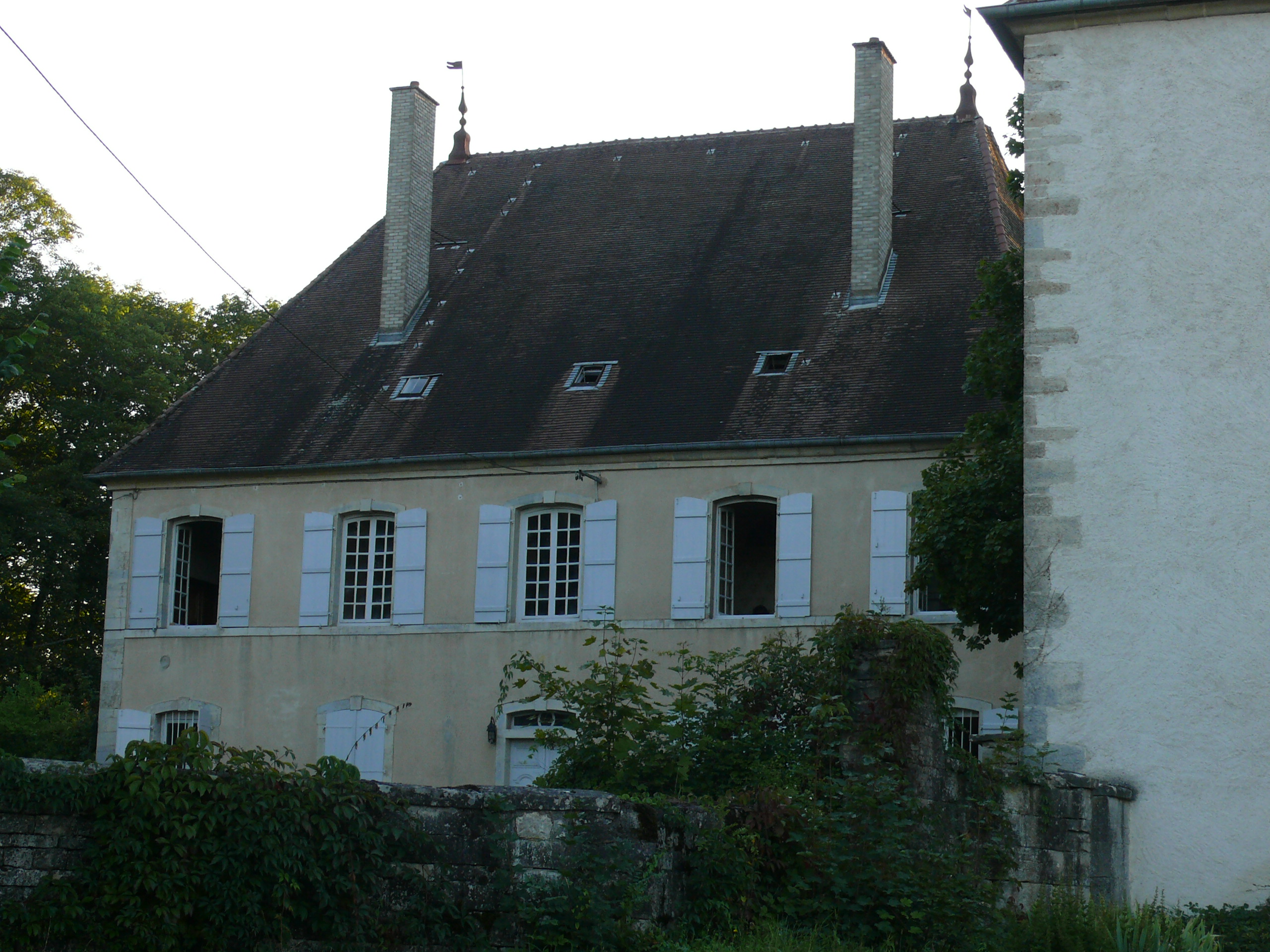 East front of the manor house of Colombe-lès-Vesoul (Haute-Saône, France)